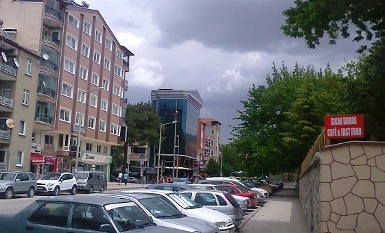 Namık Kemal Street, Burdur.